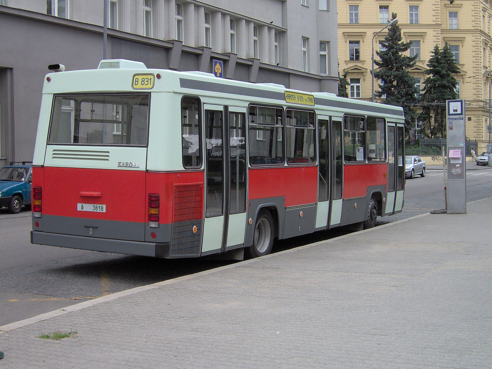 Historical bus Karosa B 831 in Brno, Czech Republic